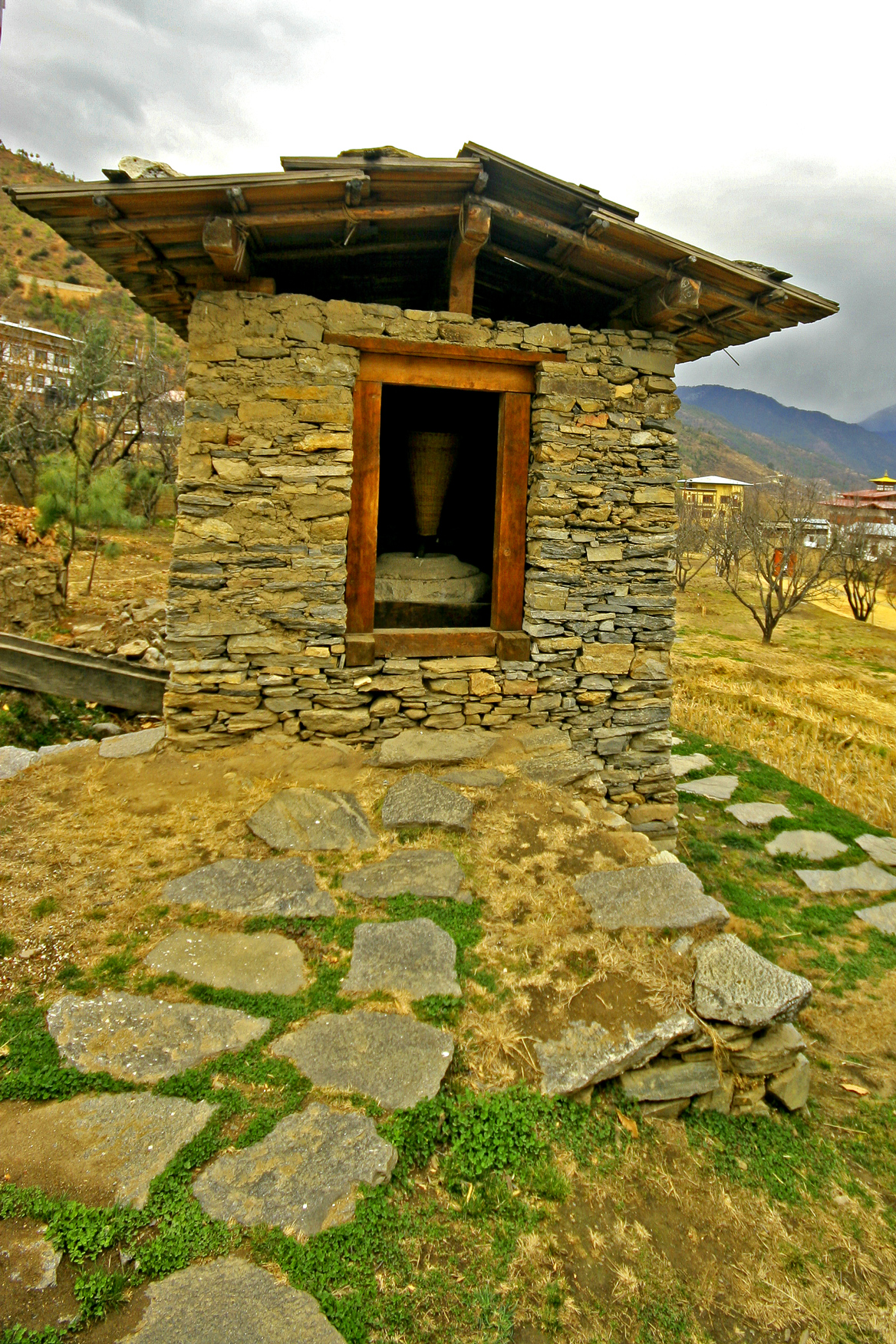 Outhouse in Bhutan (Himalayas)